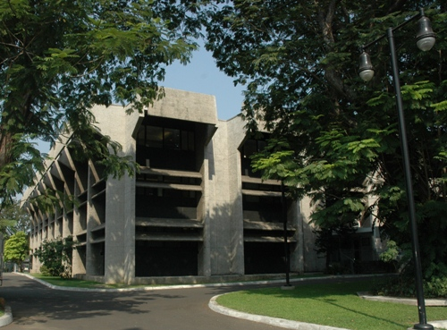 Exterior view of the Consulate General of the United States of America in Chennai